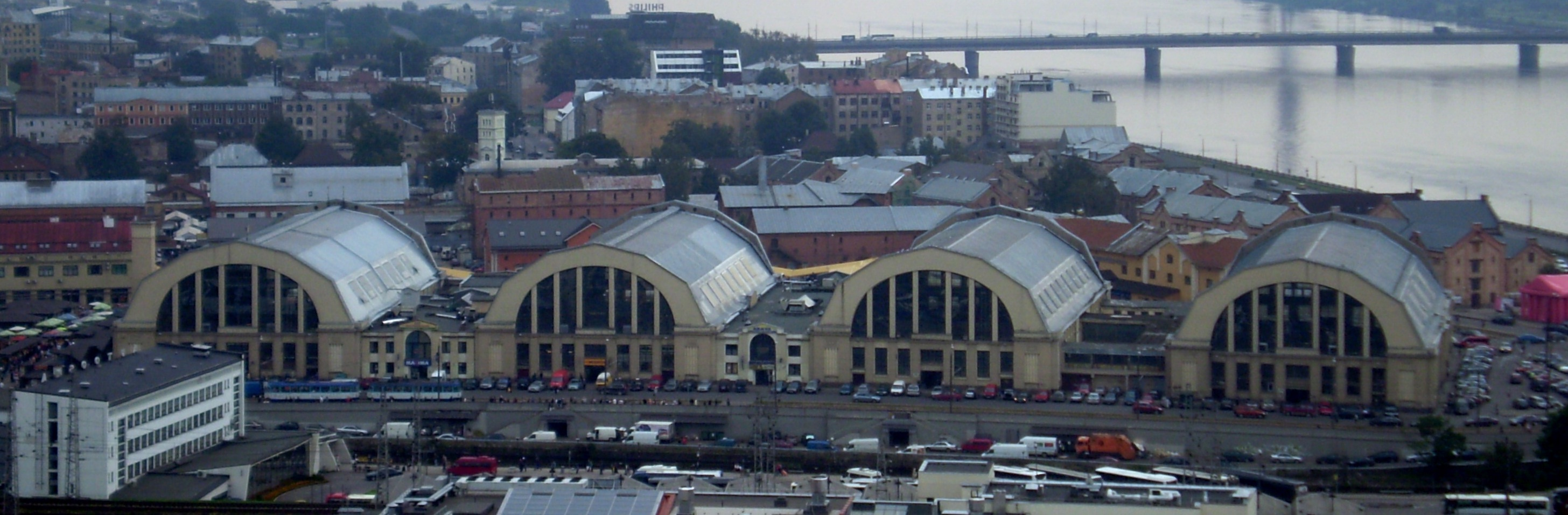 4 of the 5 Riga market halls.